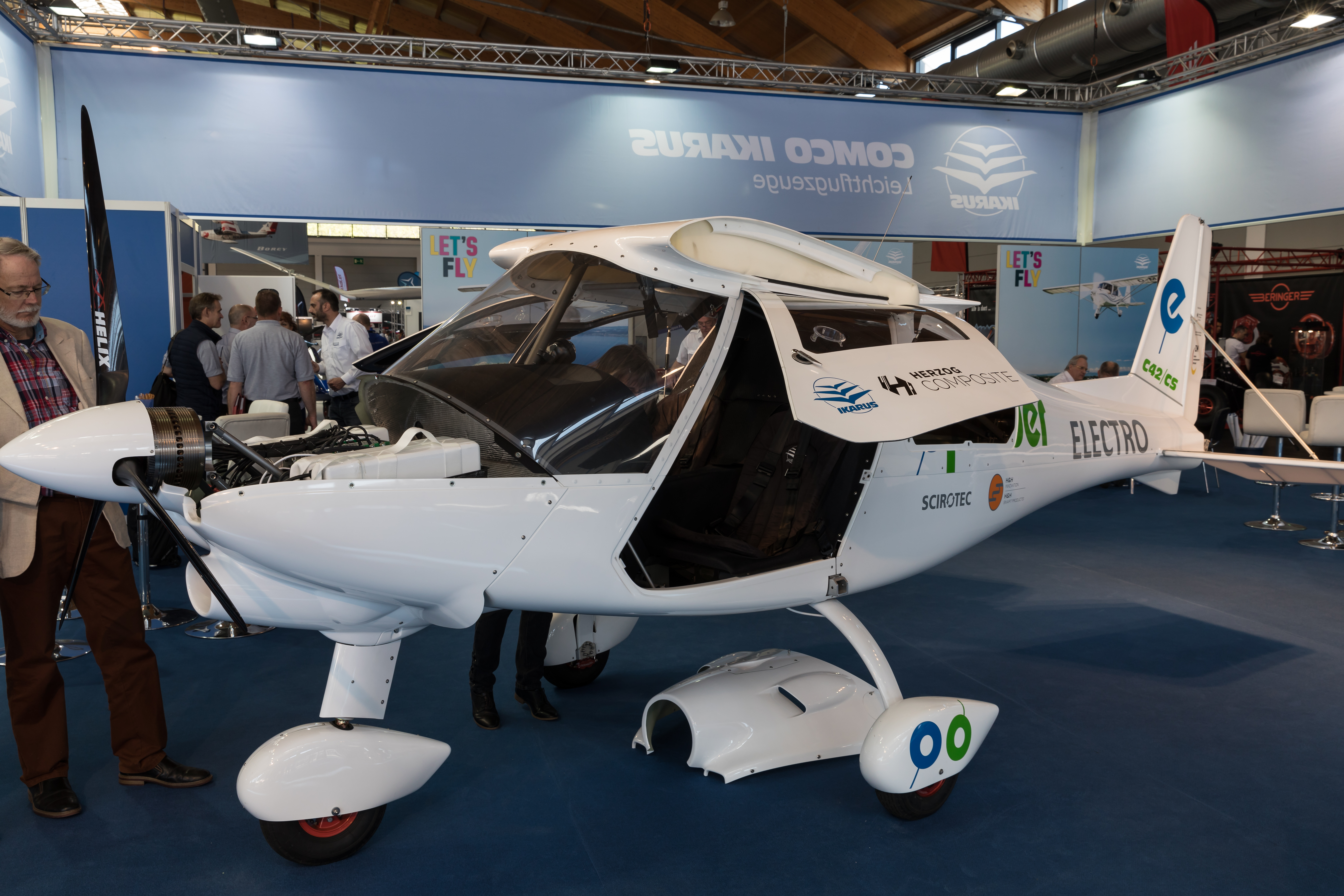 AERO Friedrichshafen 2018